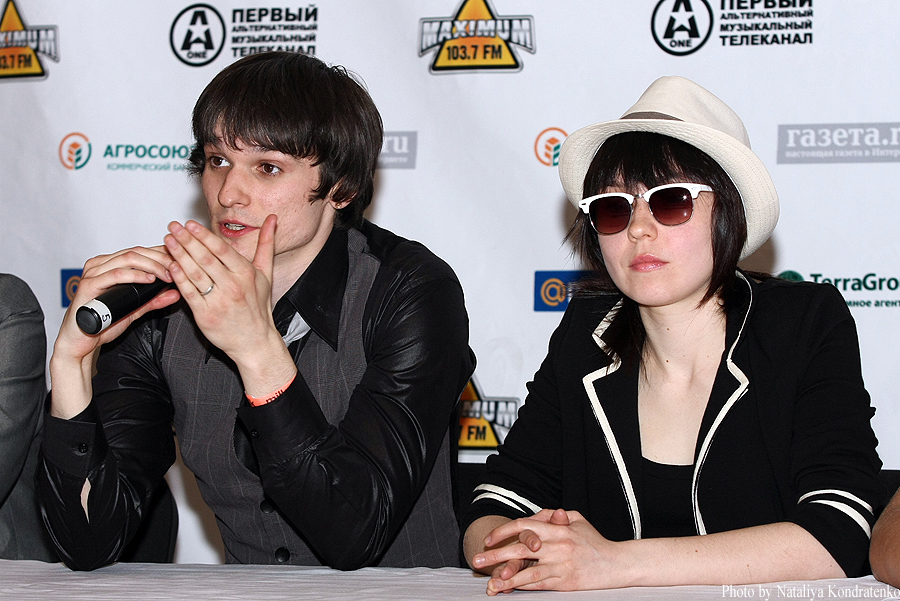 Press conference